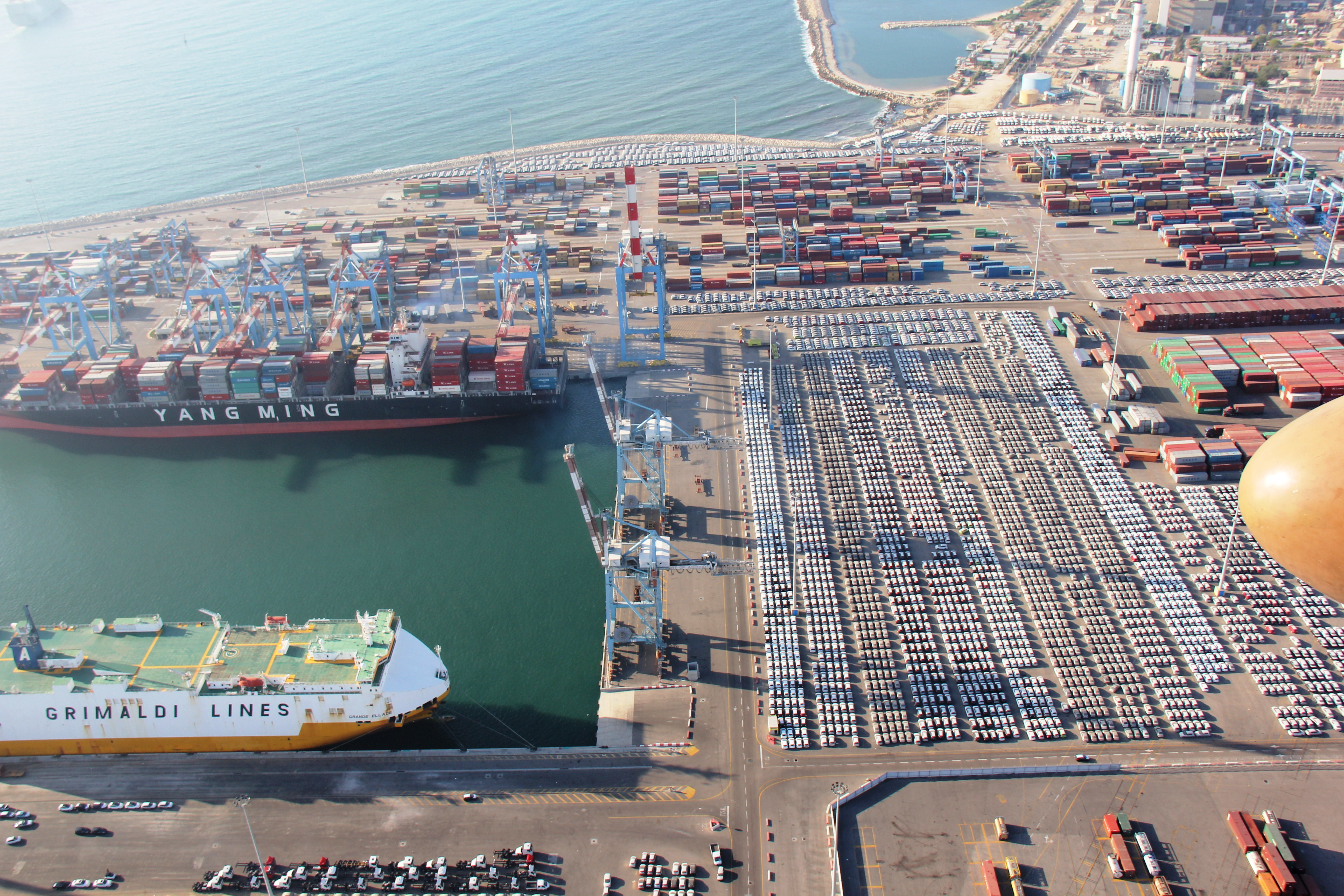 Flying over Port compound supply and receipt of the new fleet of vehicles